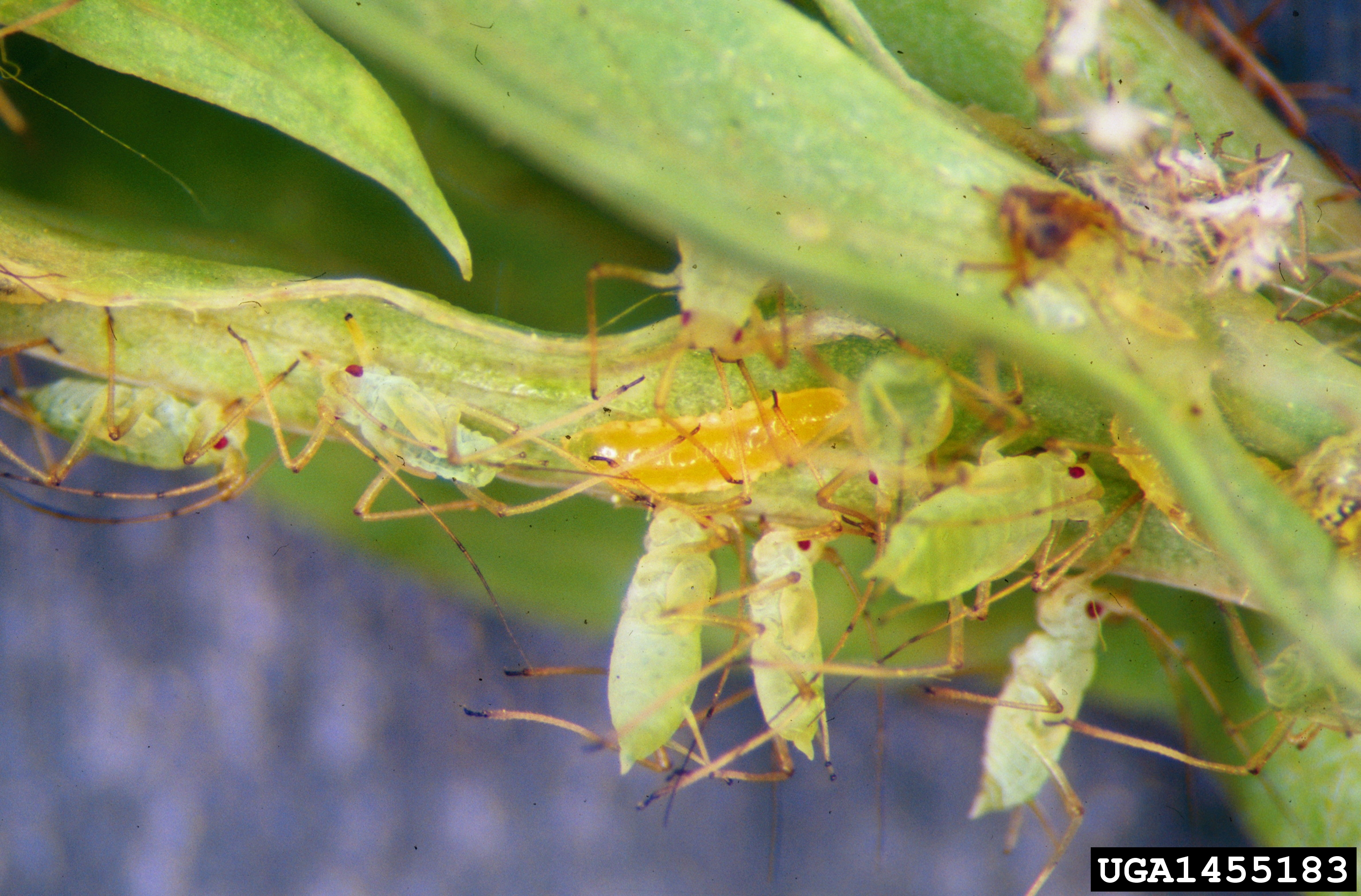 Larva of predatory midge Aphidoletes aphidimyza (center) among pea aphids